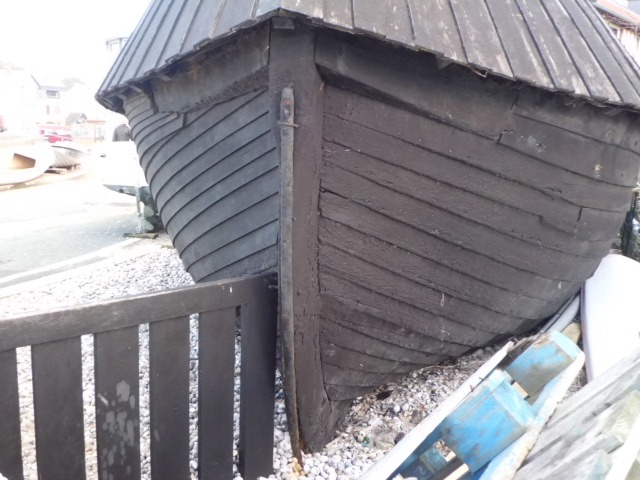 Traditional fishing boat at Etretat (Normandy)